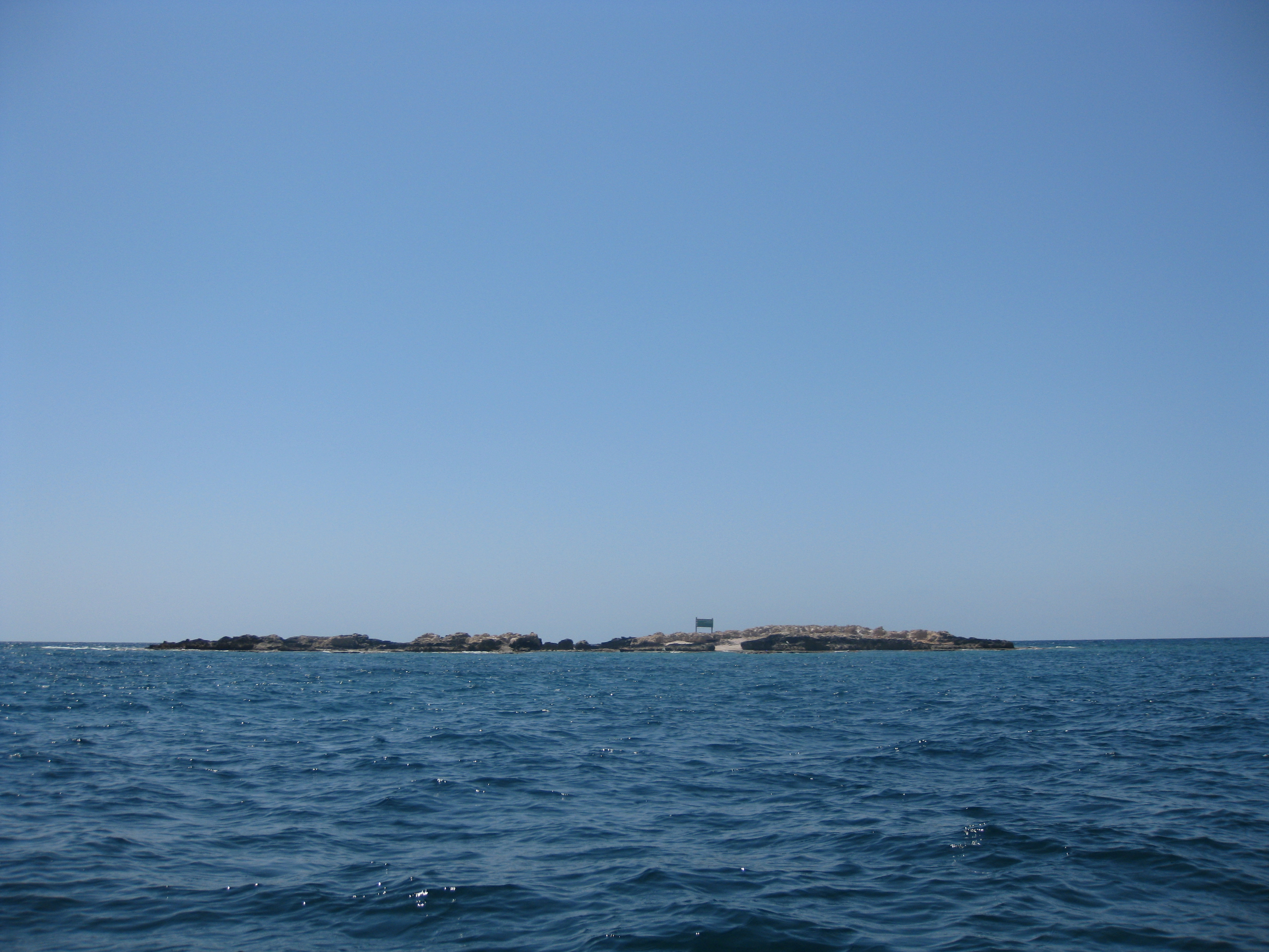 Islands of Israel איי אכזיב